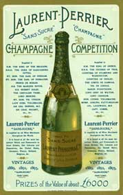 Edwardian English advert for the French Champagne, listing its honours and its many royal drinkers From The Lordprice Collection This picture is the copyright of the Lordprice Collection and is reproduced on Wikipedia with their permission Source URL